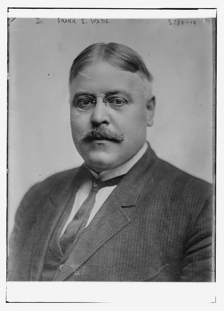 Frank Eugene Wade, New York Superintendent of State Prisons in 1916